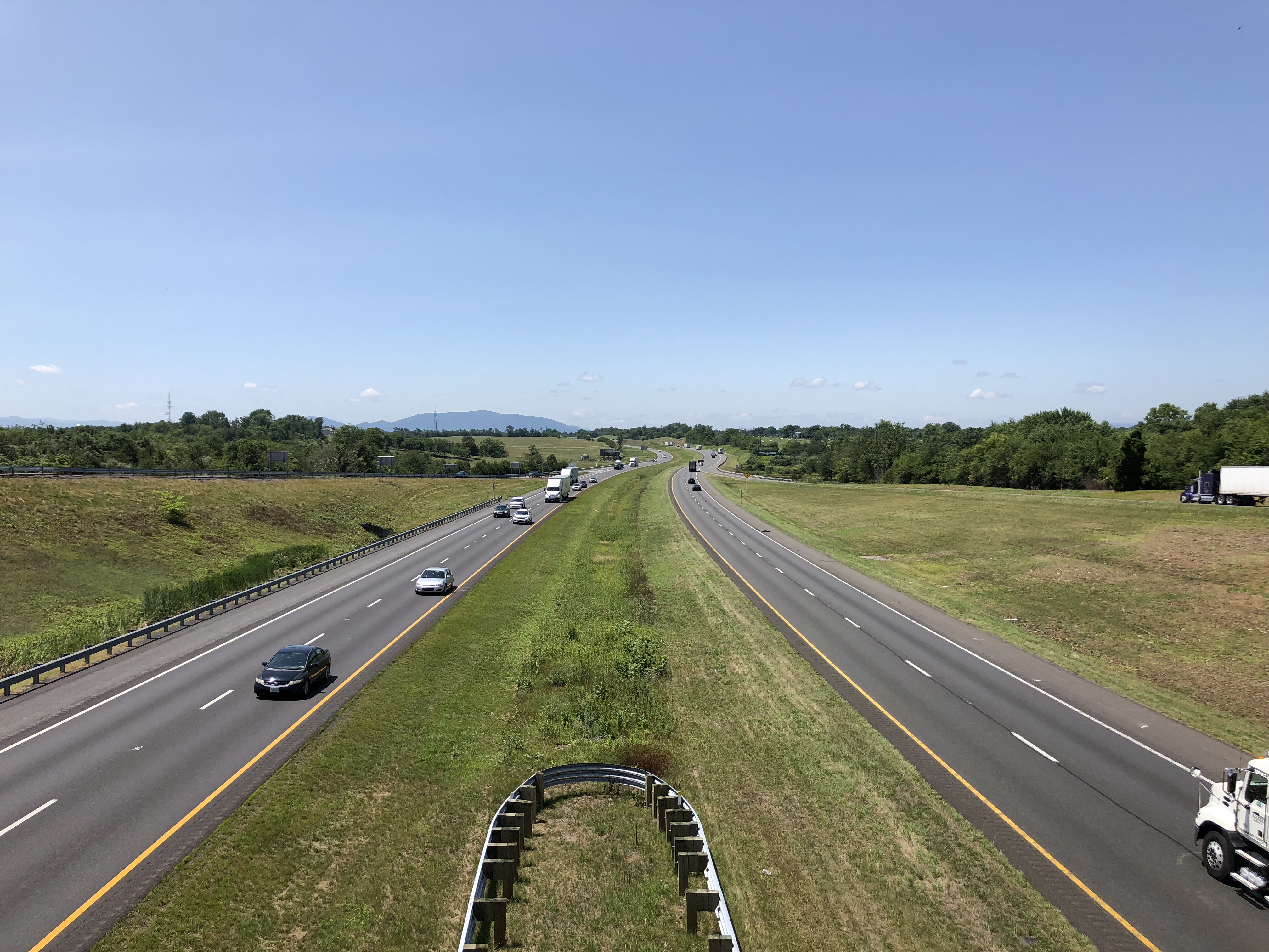 View south along Interstate 81 from the overpass for Virginia State Route 277 (Fairfax Pike) just southeast of Stephens City in Frederick County, Virginia